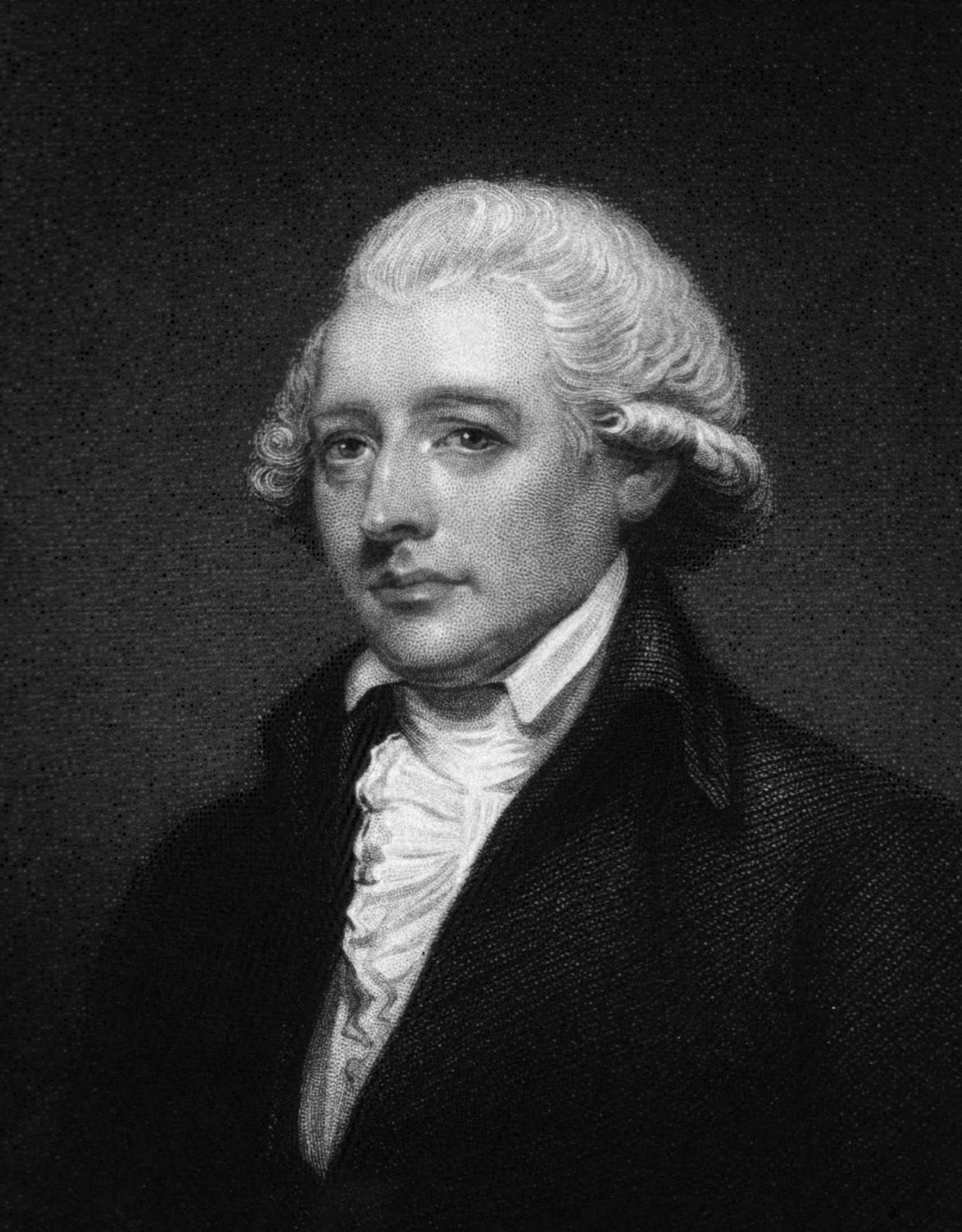 William Cumberland Cruikshank (1745 — 27 June 1800)